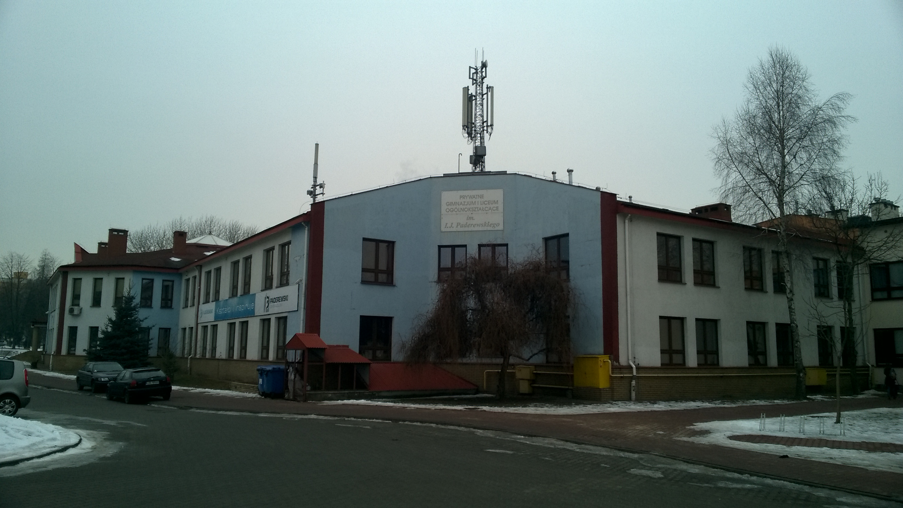 Paderewski high school in Lublin, Poland.